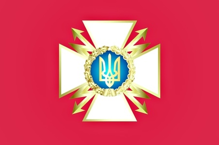 State Special Communications Service of Ukraine Flag